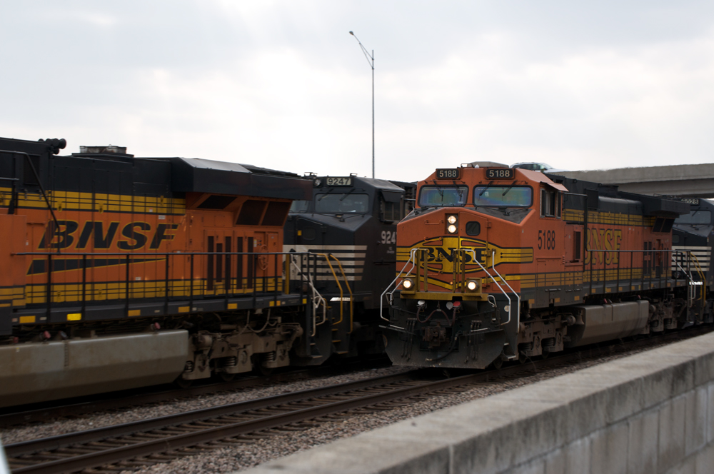 It was an unexpected day of train chasing, and things were busy in Monett, MO. A westbound BNSF manifest waits on the siding as an eastbound BNSF hotshot roars through Monett, MO.